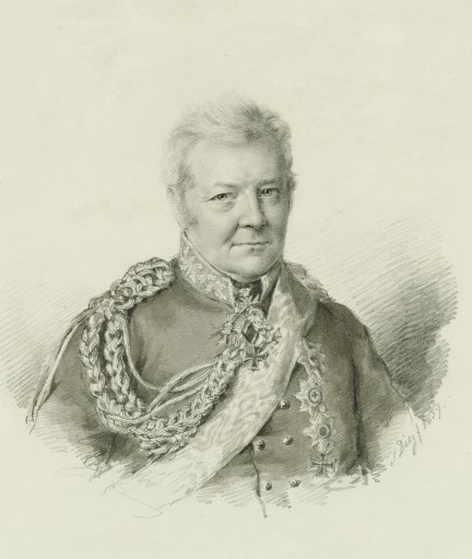 Engraving by Samuel Friedrich Diez, Ident No. SZ Diez 62